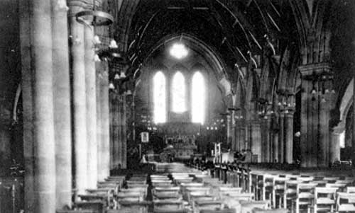 Pre-1914 print of the interior of St Stephen's Church, Kirkstall, Leeds, West Yorkshire, England. The building was designed by Robert Dennis Chantrell and built 1828-1829. It was renovated 1863-1864 by Perkin and Backhouse, and all architectural carving from that date is by Burstall and Taylor of Leeds.